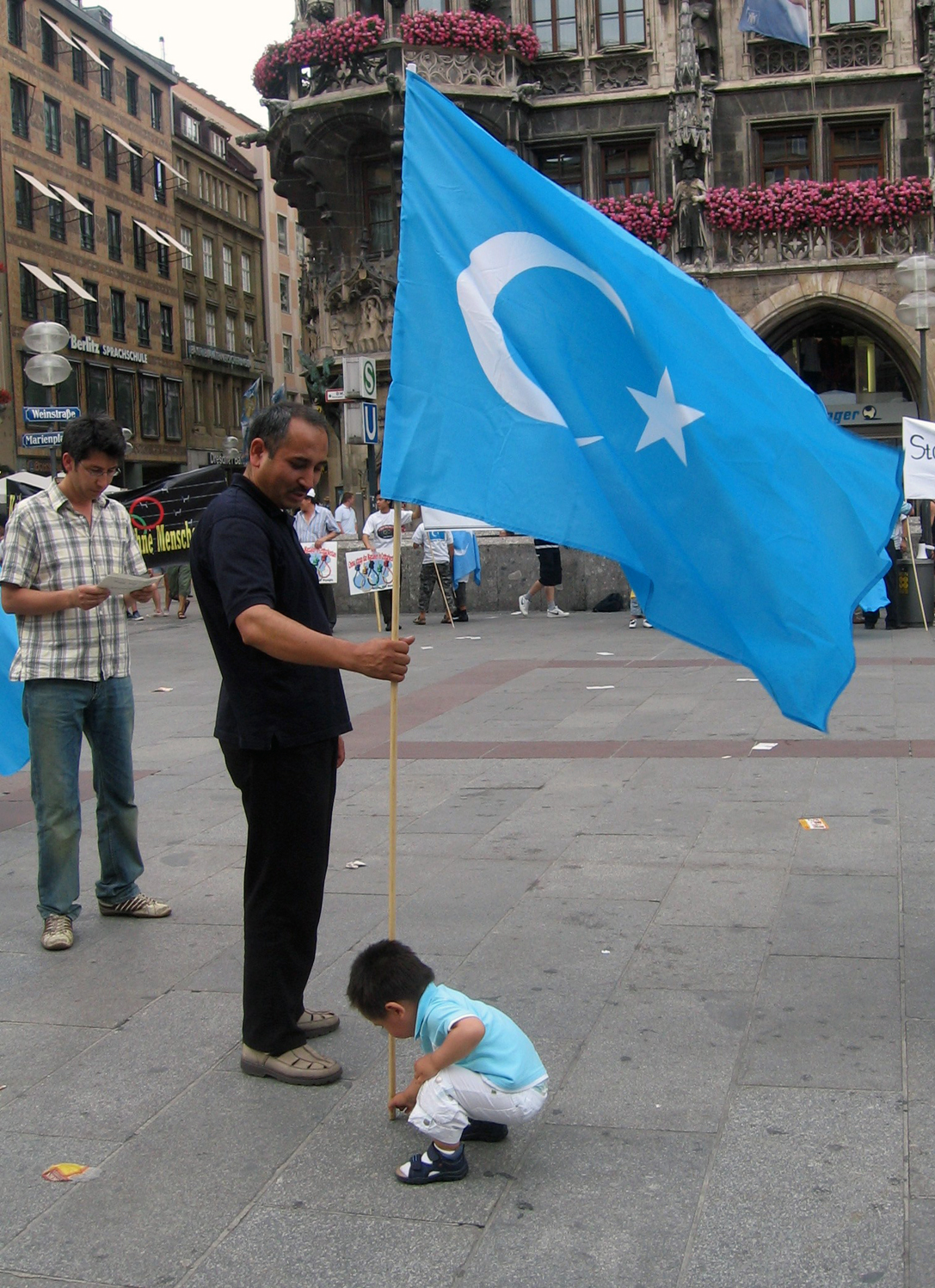 Uyghur people protest in Munich 2008 against China policy